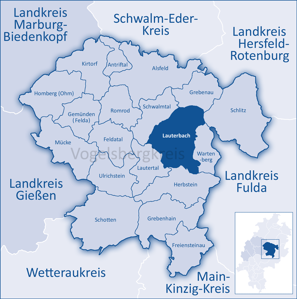 The map shows a district in the area of Vogelsbergkreis